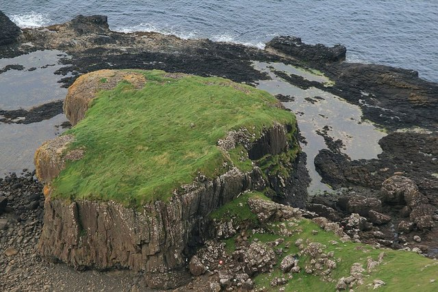 Fort of Dun Channa Dun Channa is a fort built on a stack. The remains of a wall exist that averages about 2.0m in width increasing to 3.0m at the SE side of the central entrance. The interior of the fort is covered with thick vegetation and there are alleged medieval foundations. There is some suggestion that the roughly built nature of the outer face of the fort wall may indicate a later date, but it may not be contemporary with the internal structures.